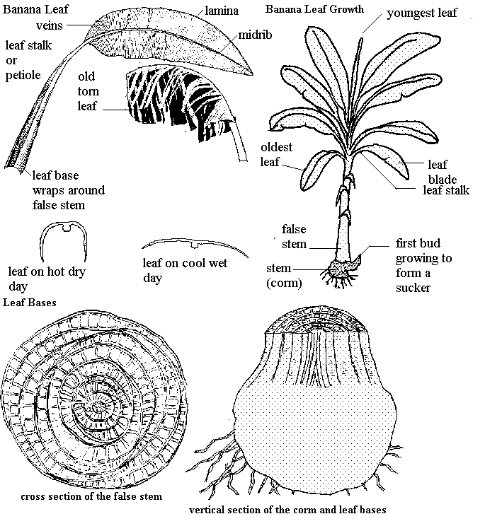 Parts of a banana plant